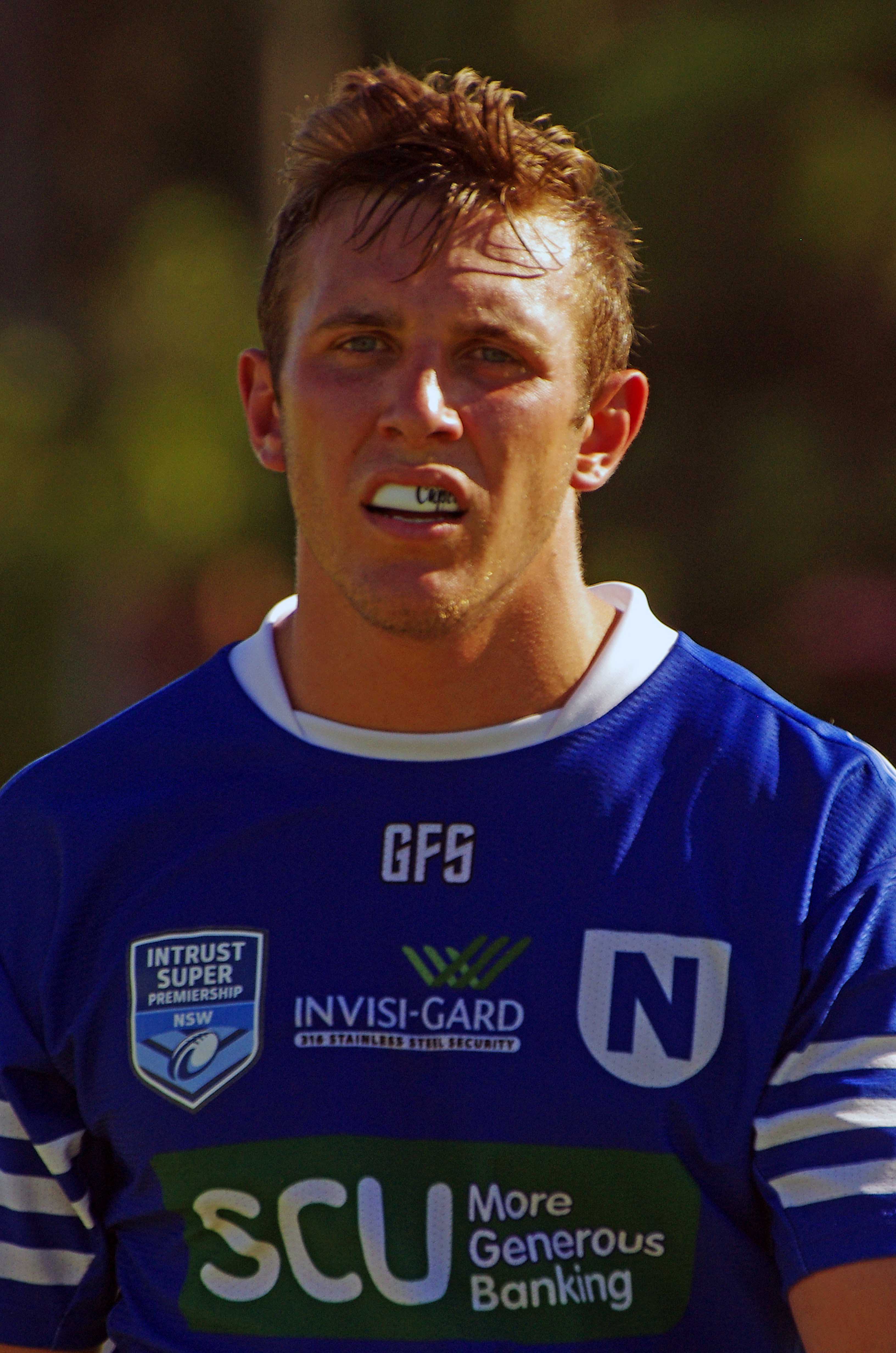 Kurt Capewell